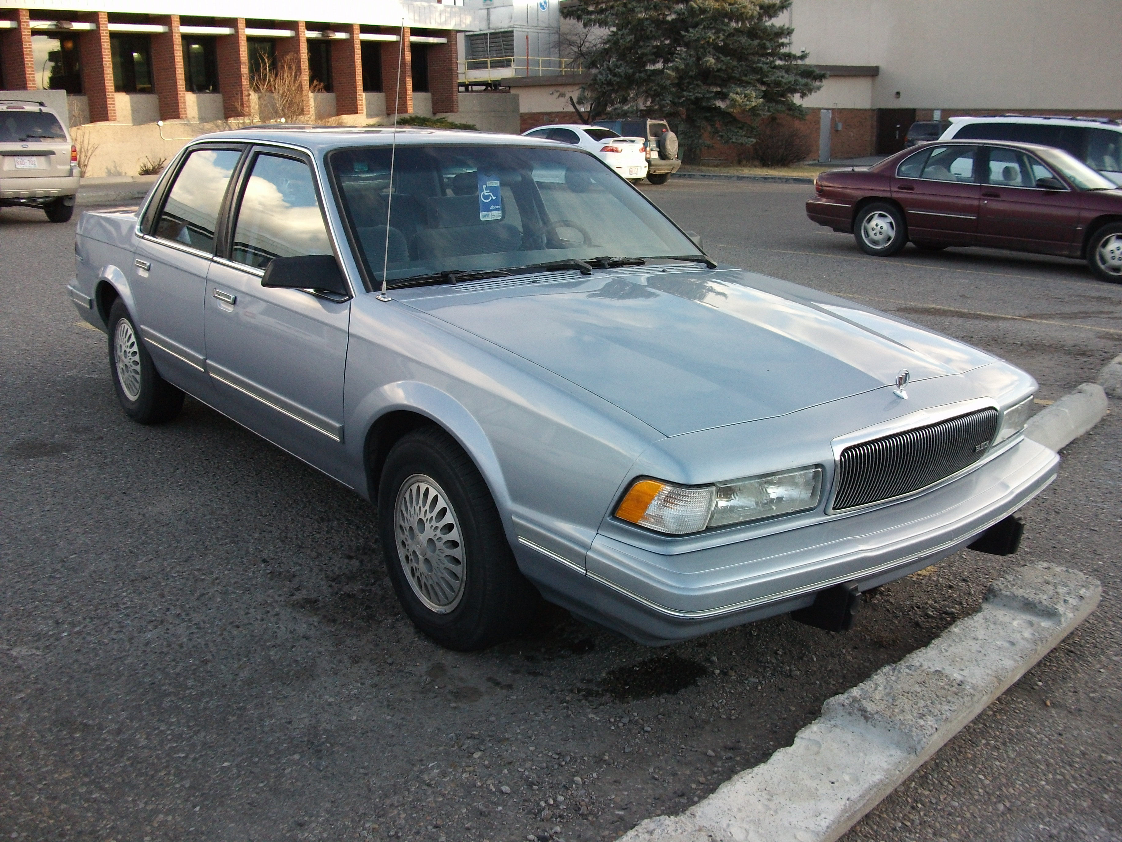 Buick Century - stereotypical old person car complete with handicap permit.